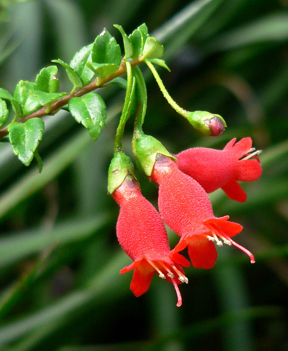 Photo of Mitraria coccinea at the San Francisco Botanical Garden